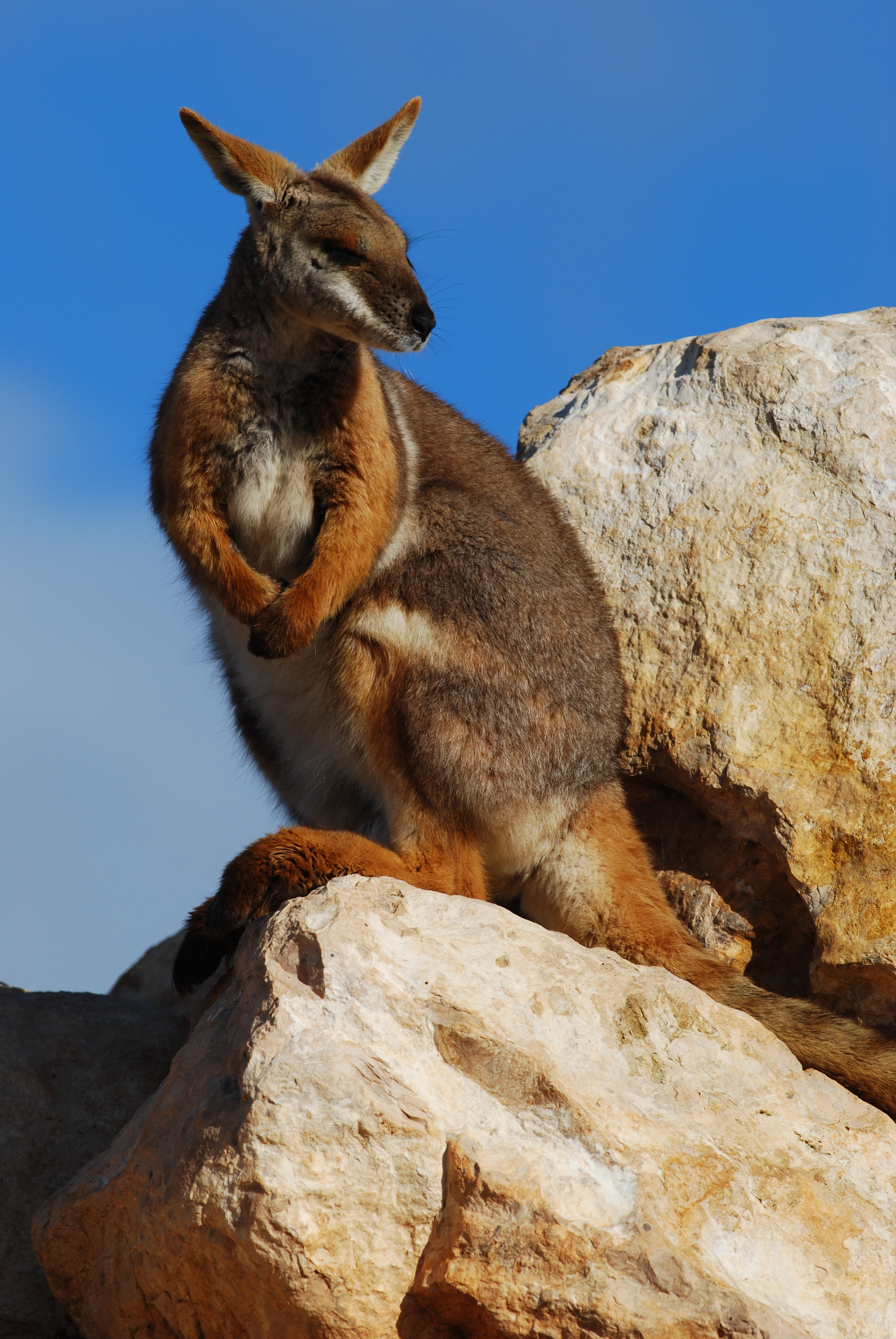 Yellow-footed rock wallaby (Petrogale xanthopus) at Monarto Zoo, South Australia